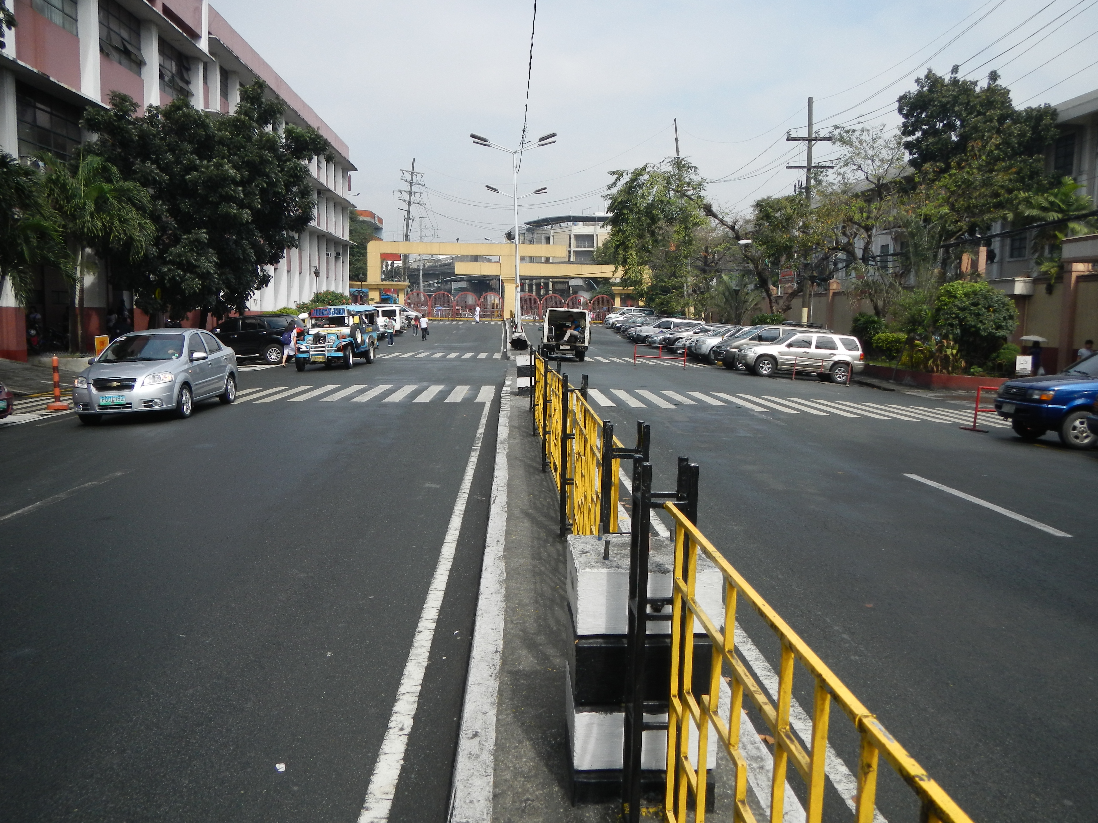 Photos from the footbridge of LRT Doroteo Jose to Santolan LRT along Mendiola Street[1] is a short thoroughfare in the district of San Miguel, Manila, Metro Manila, the Philippines named after Enrique Mendiola, close to Malacañan Palace, the street crosses the Freedom Bridge (Mendiola, Manila) or Tulay ng Kalayaan formerly Mendiola Bridge, officially known as Don Joaquin Chino P. Roces or Chino Roces Bridge in honor of Chino Roces [2] Monument -Mendiola massacre [3] [4] and the Centro Escolar University with the Historical Markers of Carmen de Luna.